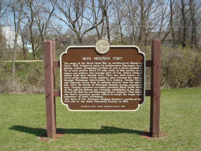 Photo of county marker for Fort Blue Mounds shot on 4/21/2007